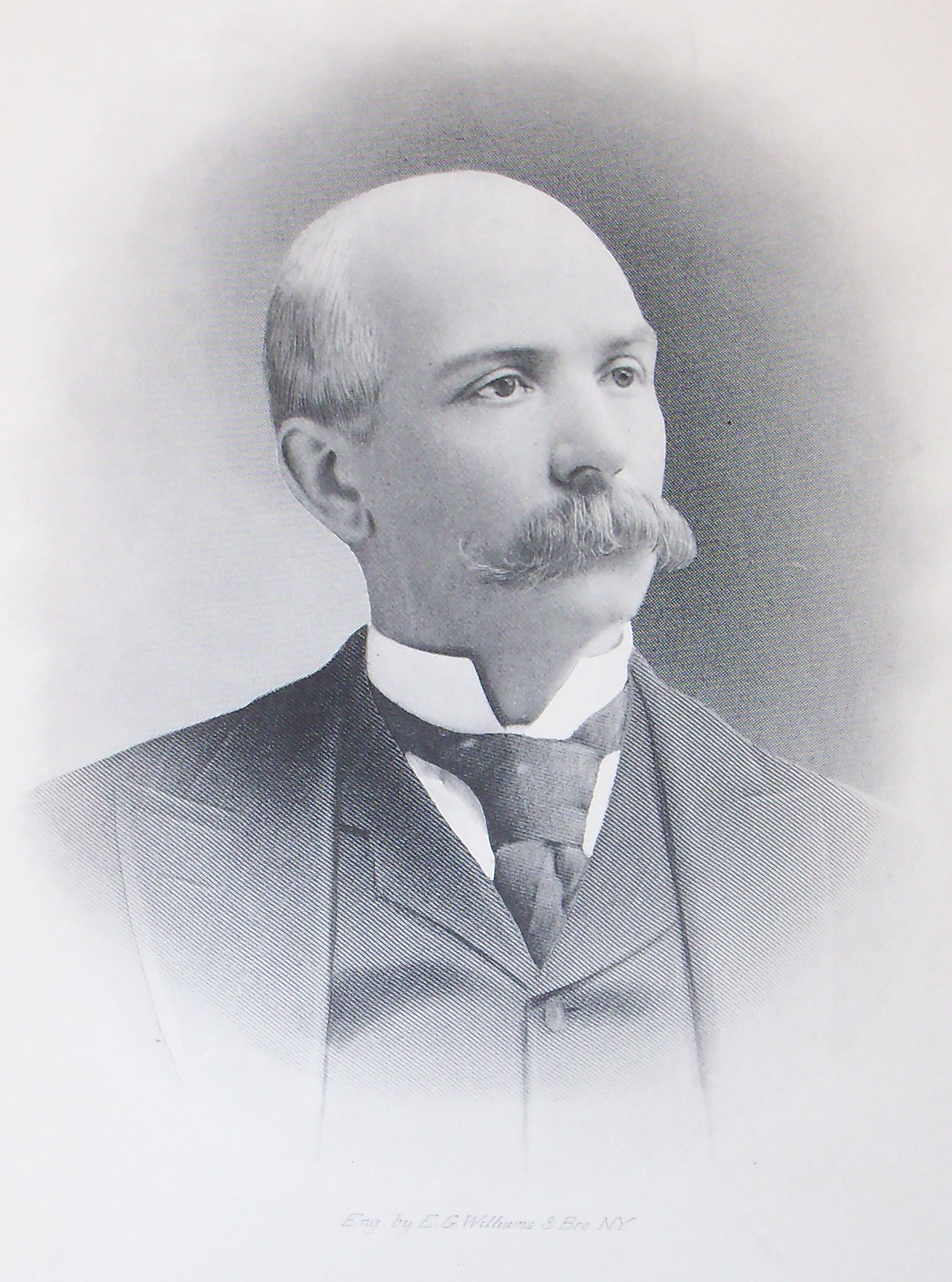 Ohio politician named Michael D. Harter.